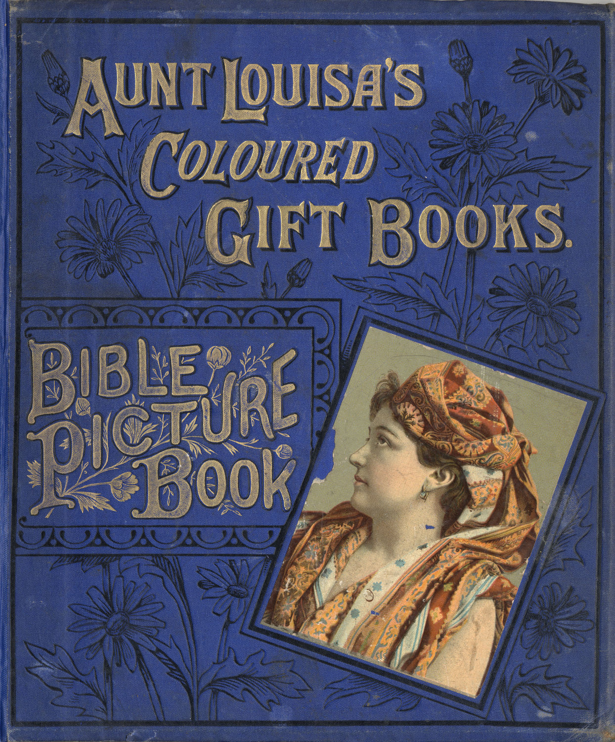 A scan of the book Aunt Louisa's Bible Picture Book.